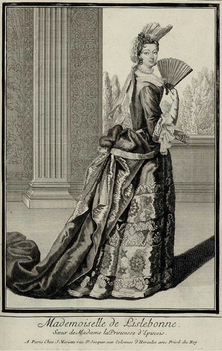 Drawing of Béatrice Hiéronyme de Lorraine, wearing bustled dress and fontange headdress